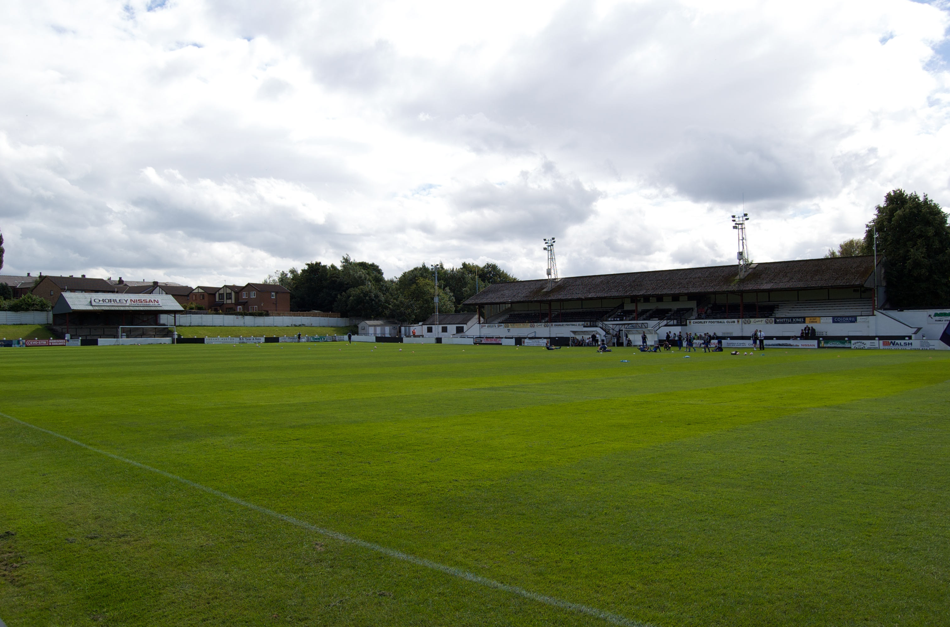 Victory Park, the stadium of Chorley FC.